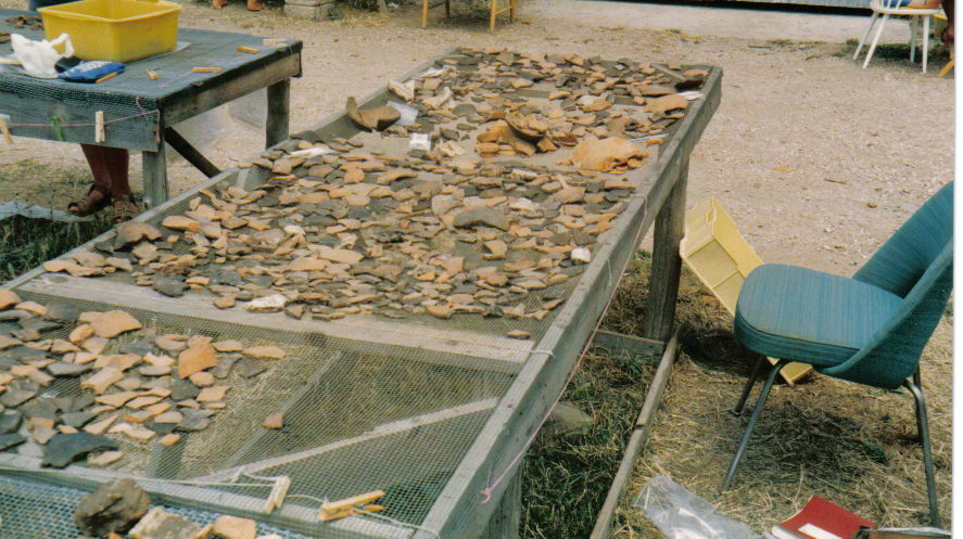 Sherds from a depot of gifts in Satricum (Italy)